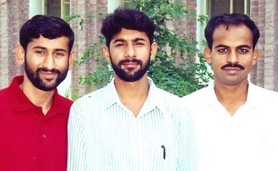 Qadir (left) during his B Pharm degree in 2000